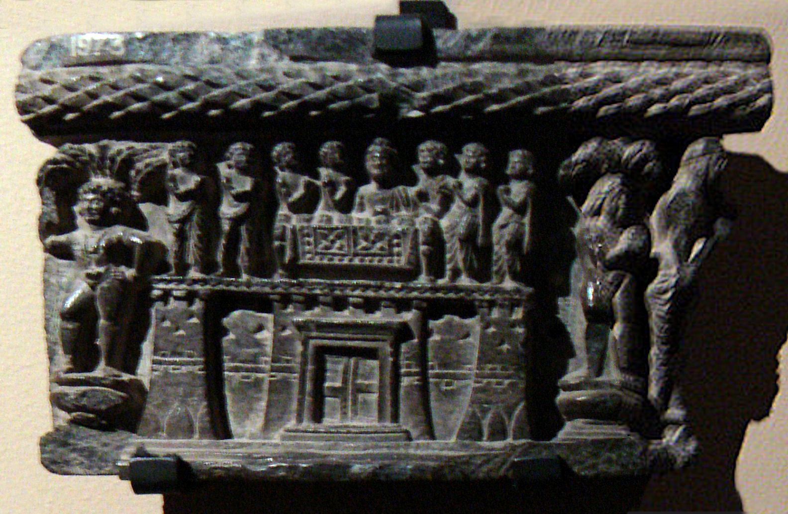 Sharing_of_relics_and_Gandhara_fortified_city